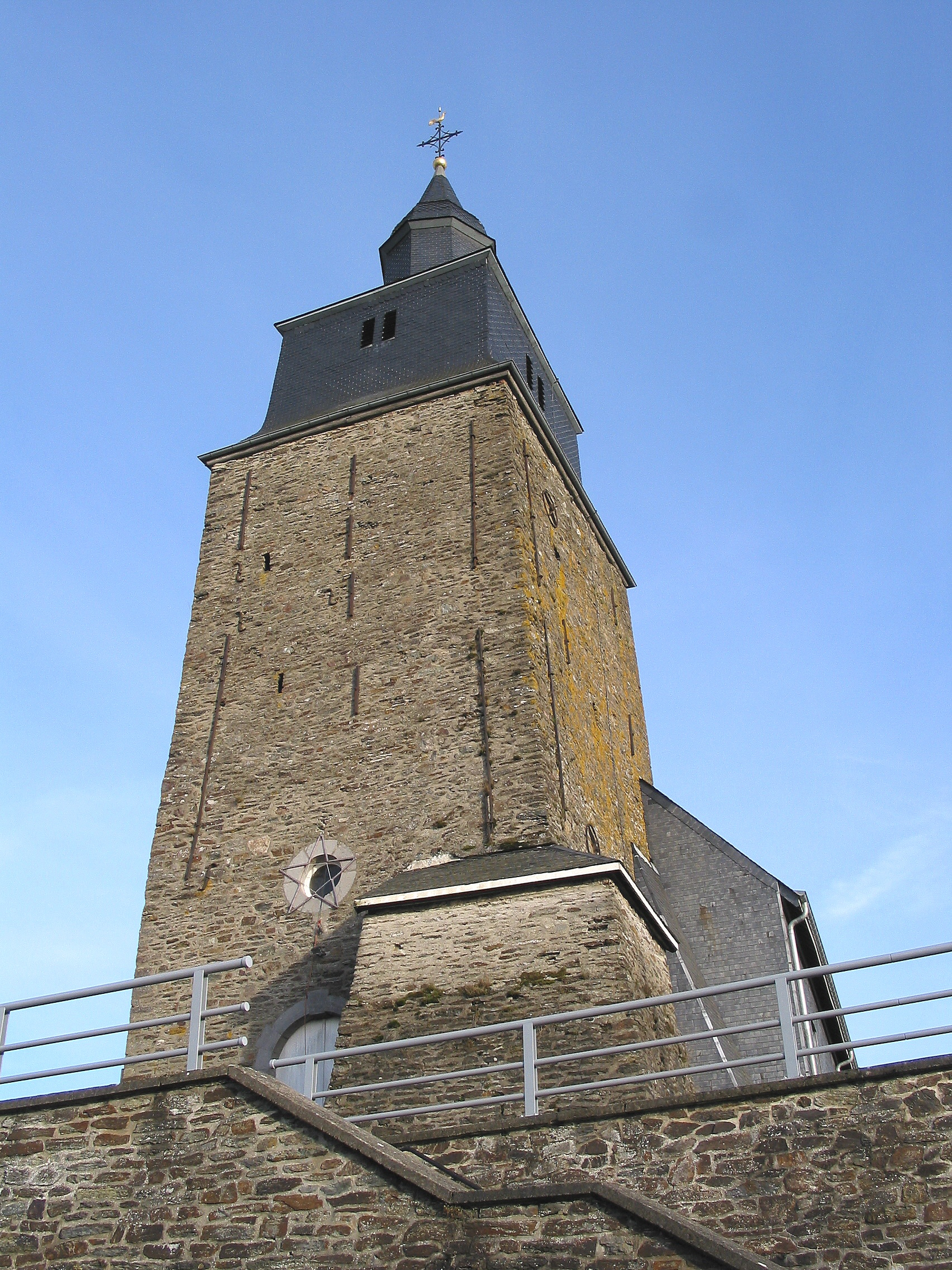 Graide (Belgium), the St. Denis church and his old tower of the VIIIth century.